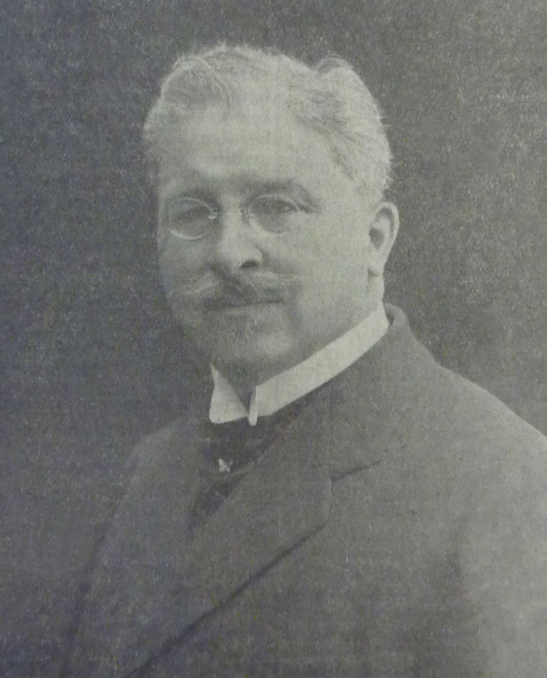 Joseph Räber publisher of the Swiss newspaper Vaterland